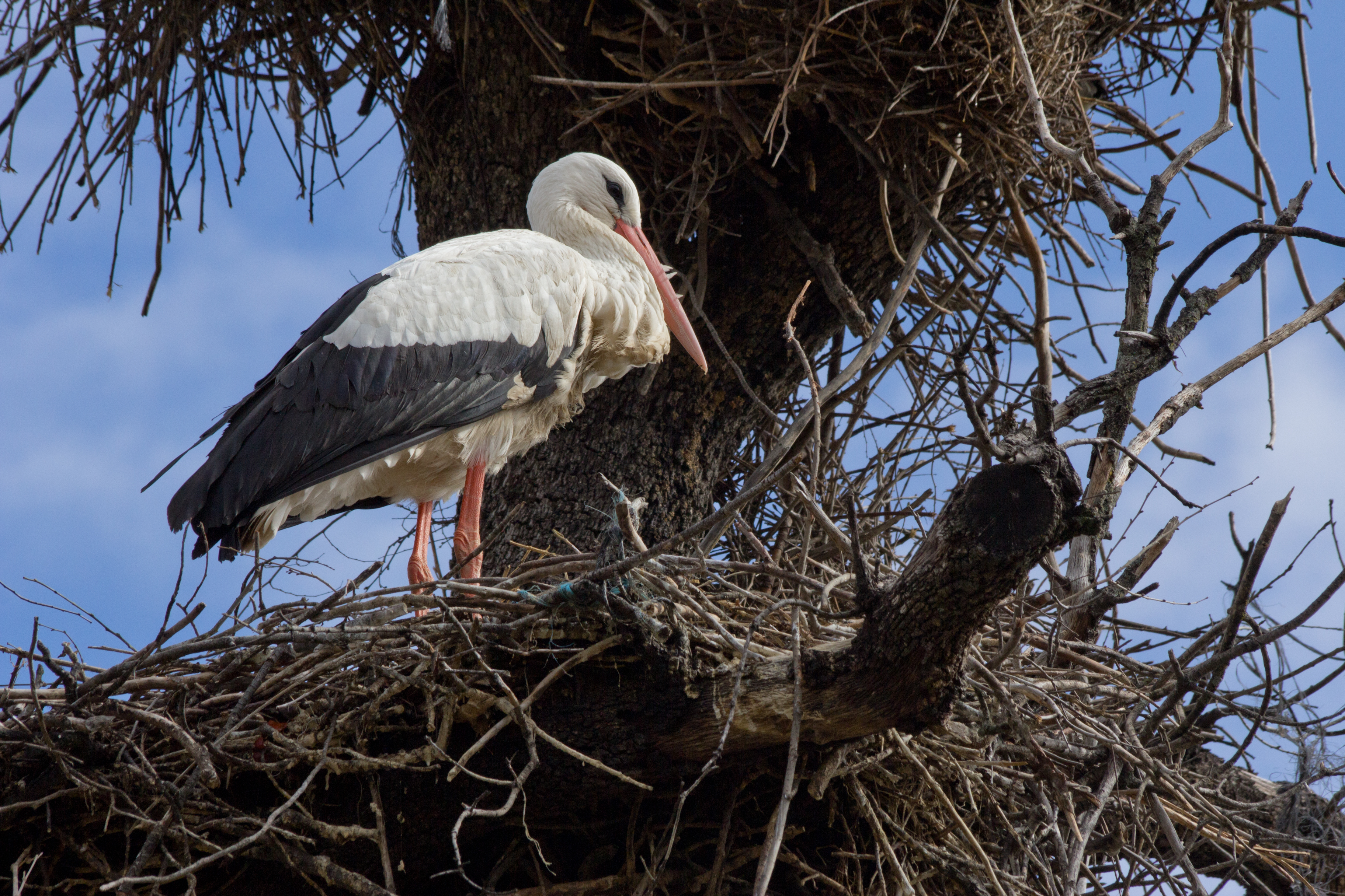 White Stork (Ciconia ciconia) in Madrid, Spain.